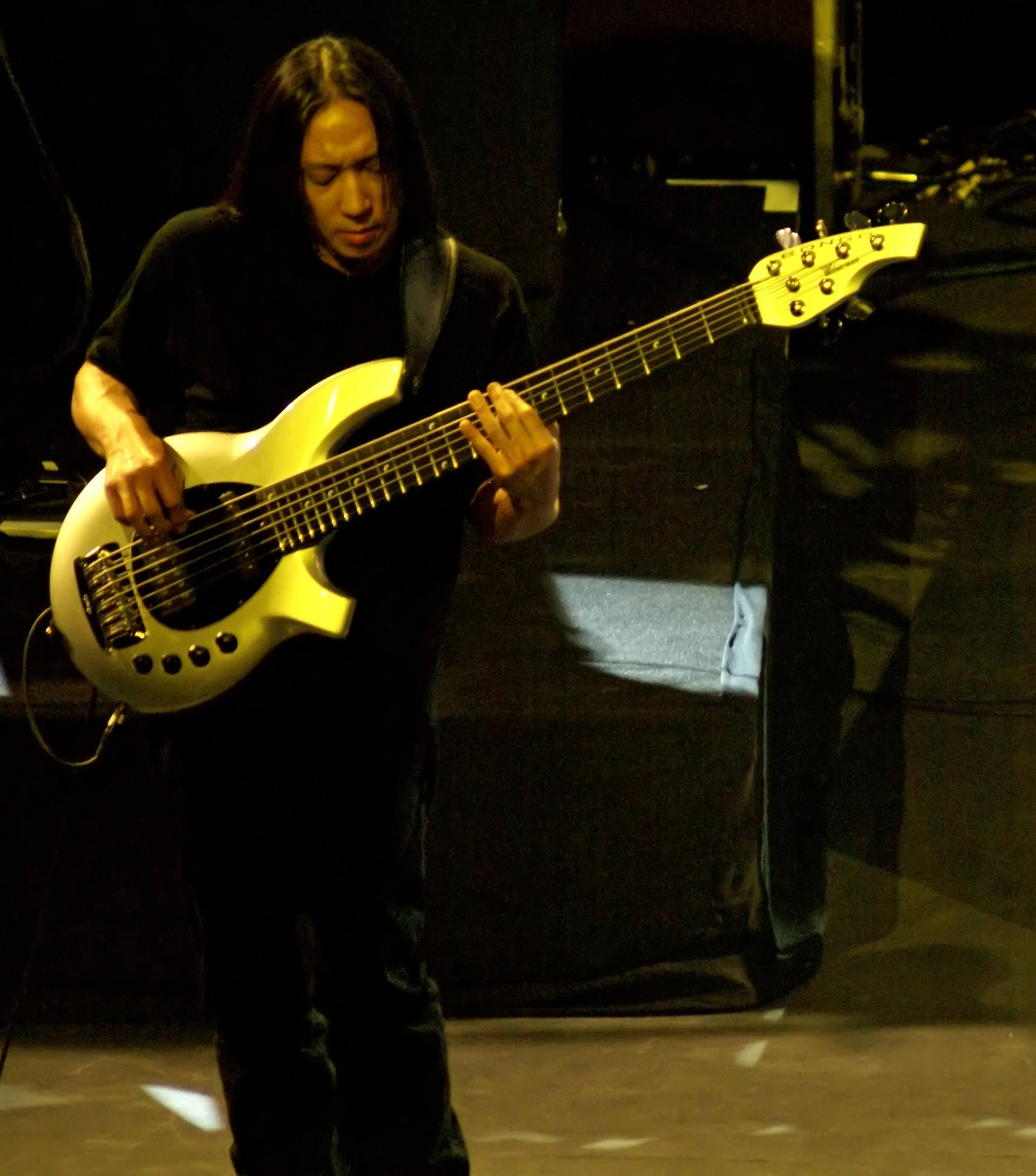 John Myung with Dream Theater in Rio - 2006